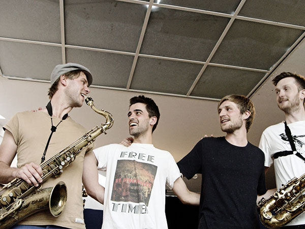 Girls in Airports in Aarhus 2013